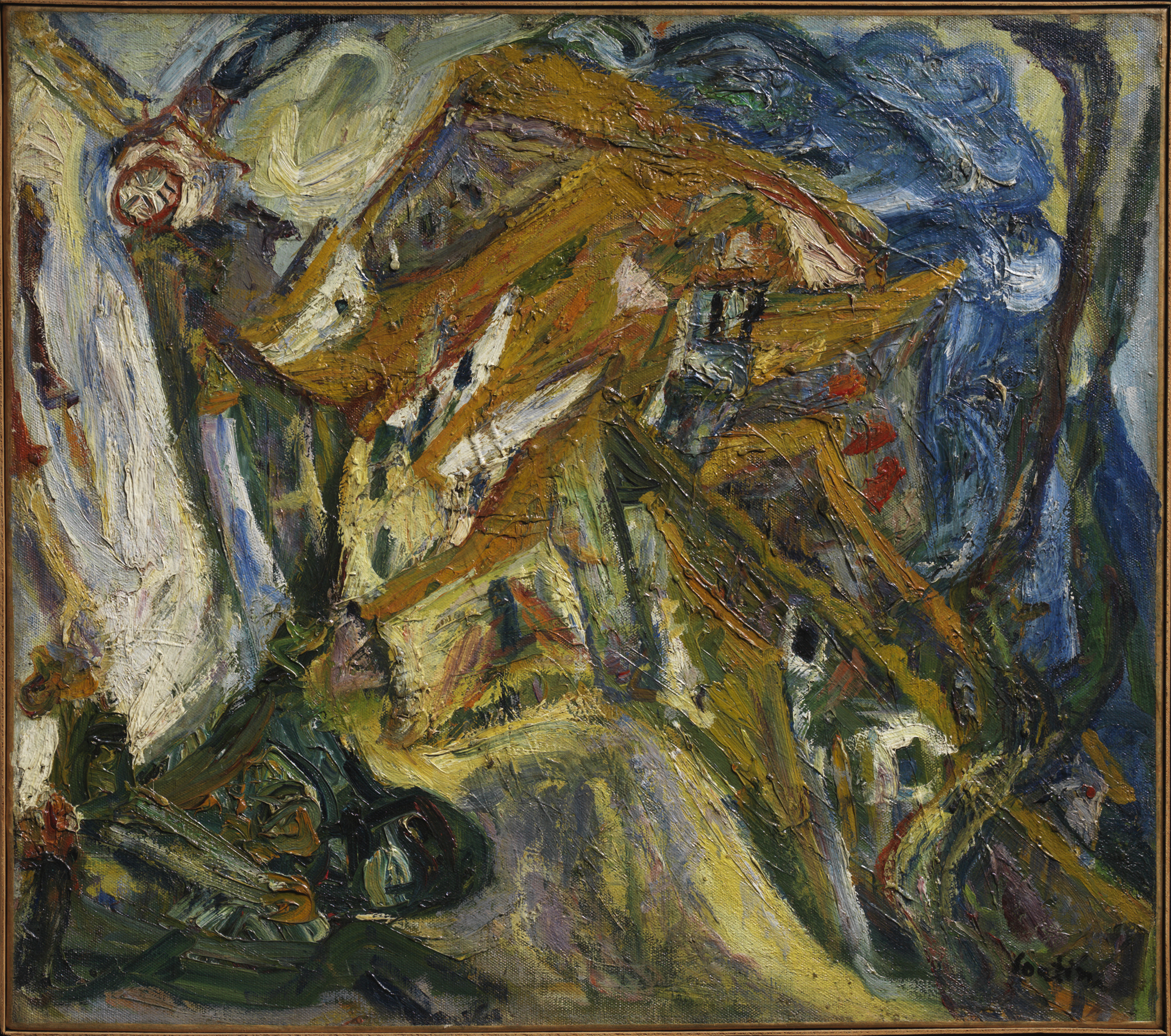 Chaïm Soutine, Russian, active in France, 1893–1943 View of Céret, ca. 1921–22 Oil on canvas 74 x 85.7 cm. (29 1/8 x 33 3/4 in.) frame: 100 x 104.7 cm (39 3/8 x 41 1/4 in.) The Henry and Rose Pearlman Foundation, on long-term loan to the Princeton University Art Museum L.1988.62.26